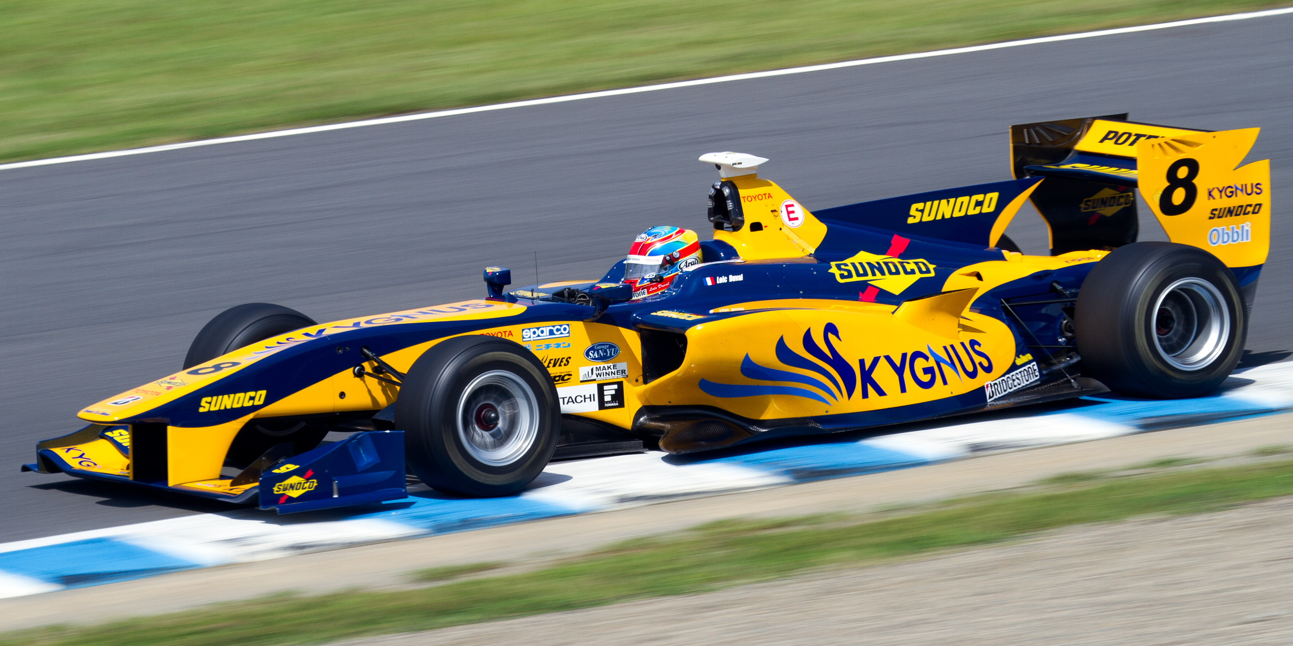 Super Formula 2014 Rd.4 Motegi: Loïc Duval (Team LeMans)